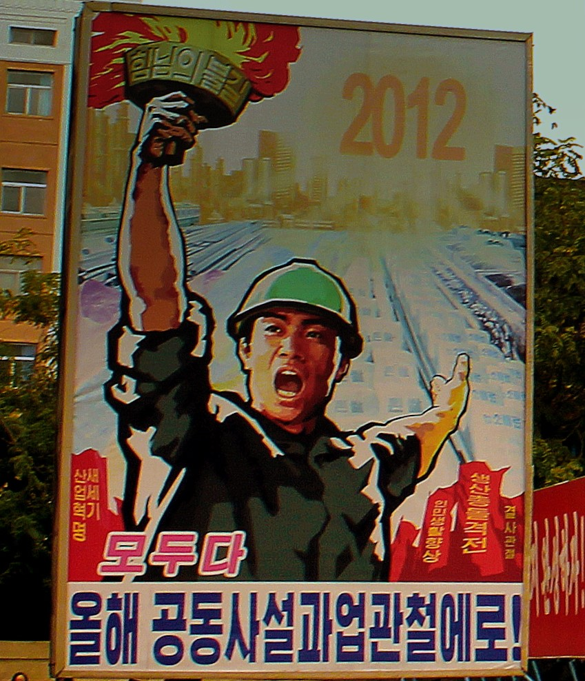 PROPAGANDA FOR THE CITIZENS OF THE DPRK,THESE VERY COLOURFUL POSTERS DEPICTING A NORTH KOREAN SOLDIER ARE EVERYWHERE IN THE DPRK!